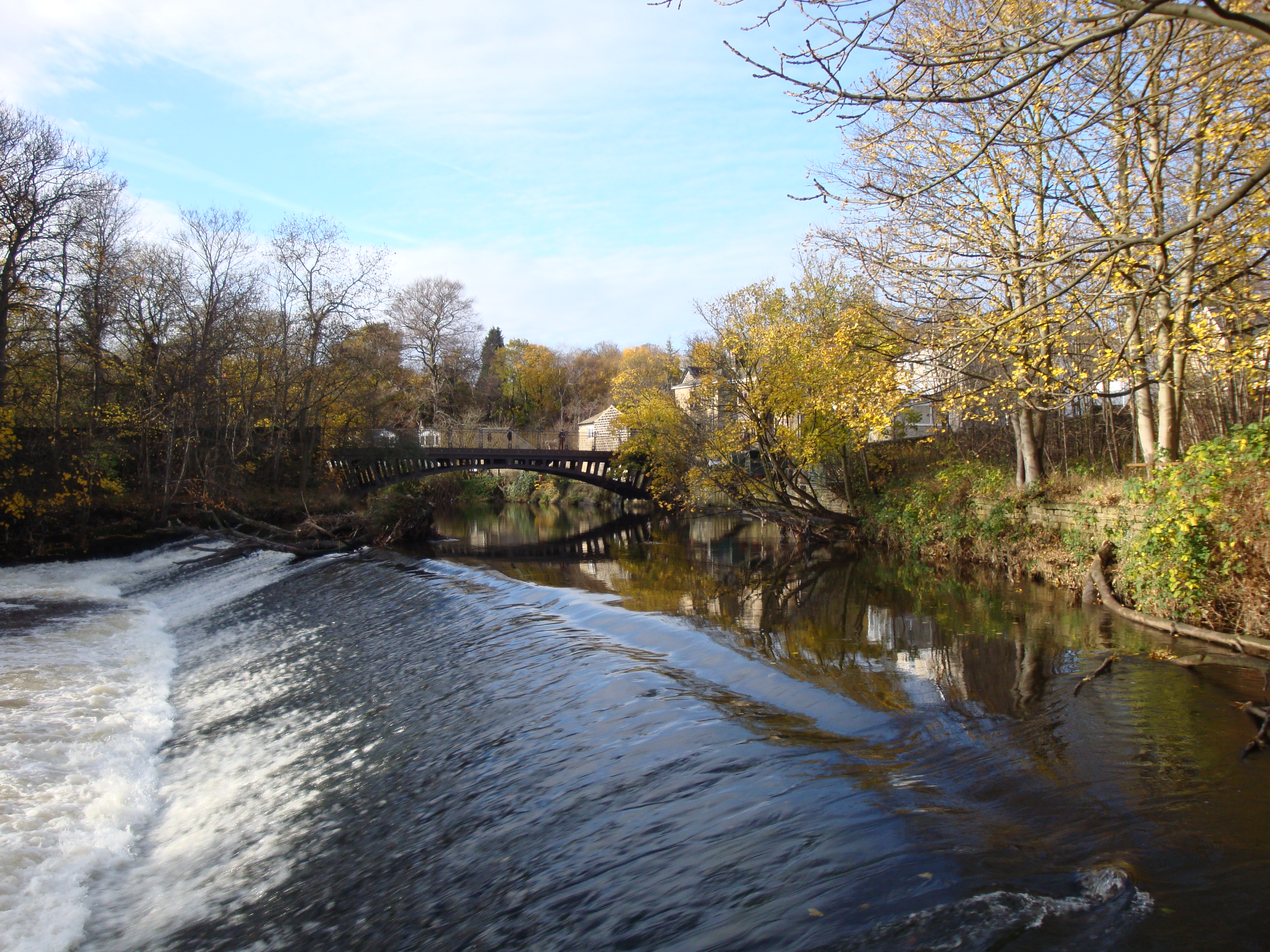 Pollard Bridge, Newlay Lane, Horsforth, Leeds. This bridge was erected in 1819 by John Pollard of Newlay House, according to the plaque on the structure. It is now a footbridge, and considerable measures have been enacted to ensure that no vehicles may cross the bridge. Also visible is a large weir on the River Aire. The viewpoint is due west.